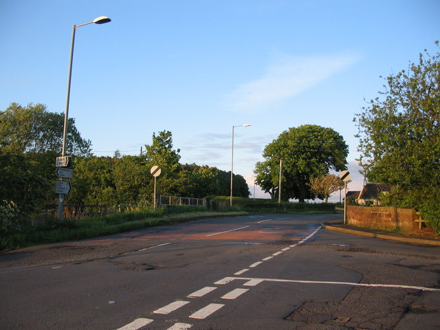 Annbank. A view looking east towards the railway bridge from the junction of the B744 and the B742